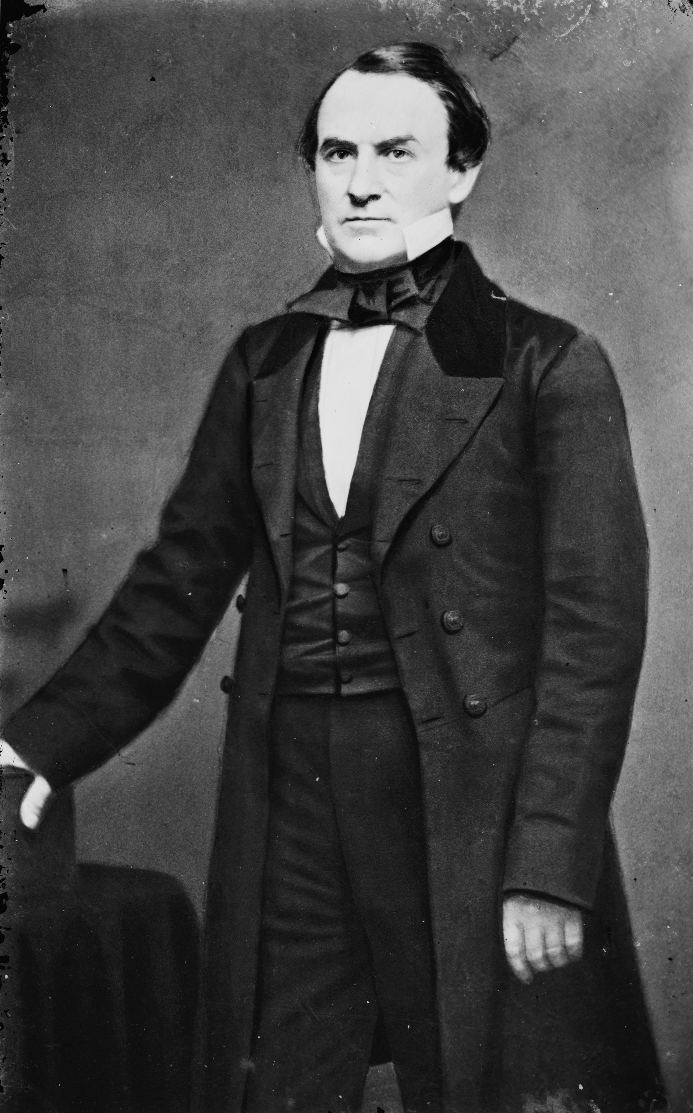 Charles J. Faulkner (1806-1884). Library of Congress description: "Hon. Chas. J. Faulkner"